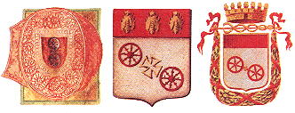 The arms of Mainz in 1440, the Napoleonic arms and the arms from 1811.